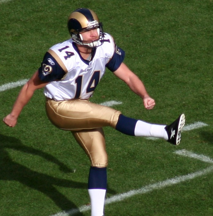 Jeff Wilkins, kicker of the St. Louis Rams, attempts a field goal in a game against the San Francisco 49ers.